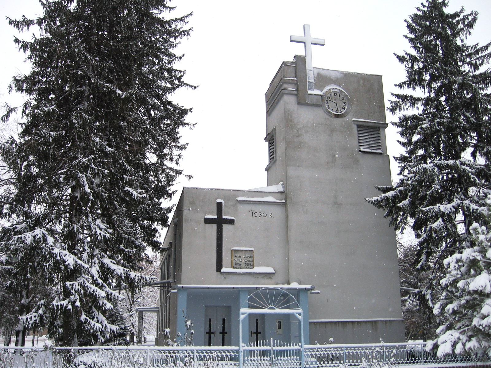 Slovak evangelical church in Ostojićevo (Vojvodina, Serbia). Srpski (latinica): Slovačka evangelistička crkva u Ostojićevu.